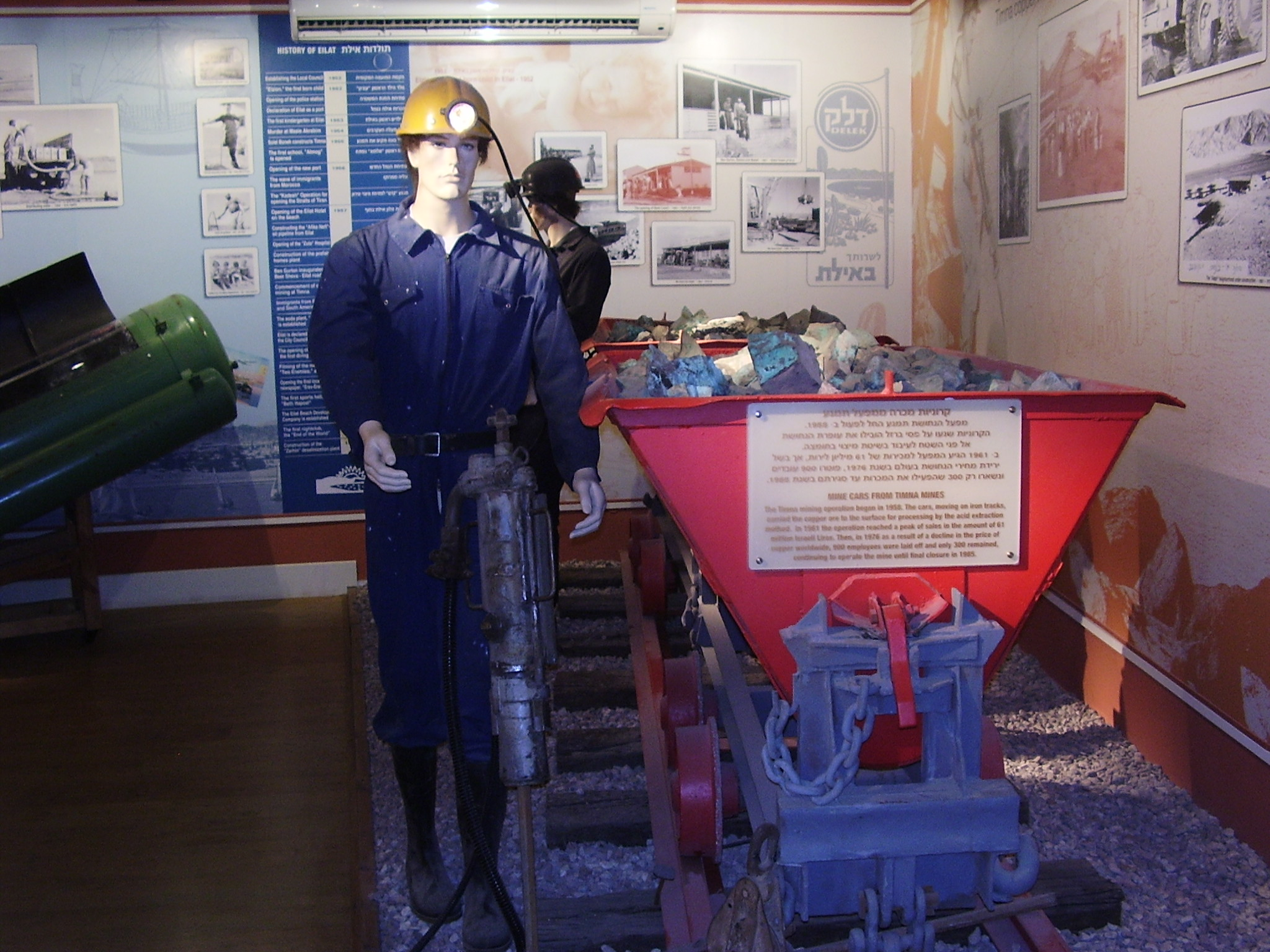 mine cars from timna mines, in eilat historical museum